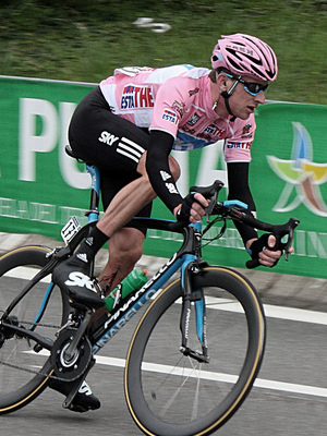 Bradley Wiggins, Giro d'Italia 2010